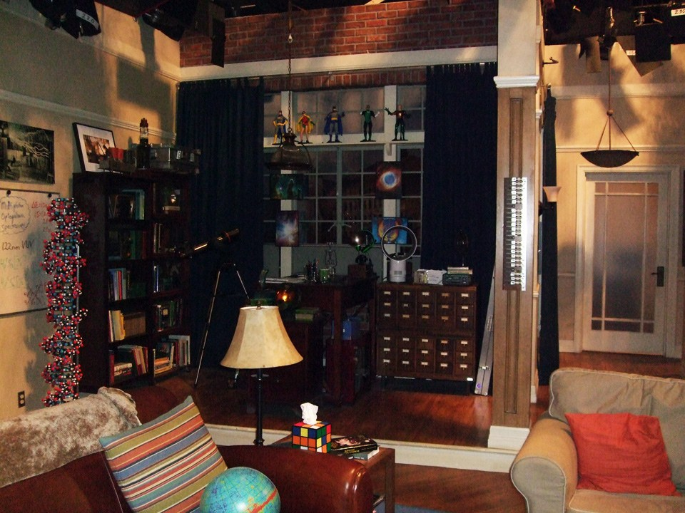 The Big Bang Theory set visit.